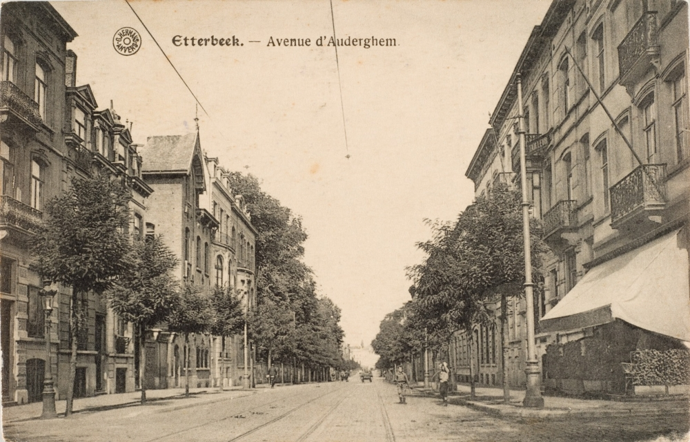 Collection Belfius Banque-Académie royale de Belgique © ARB-SPRB - Verzameling Belfius Bank-Académie royale de Belgique © ARB-SPRB - Contact: SPRB - Centre de Documentation BDU / GODB-BSO Documentatiecentrum